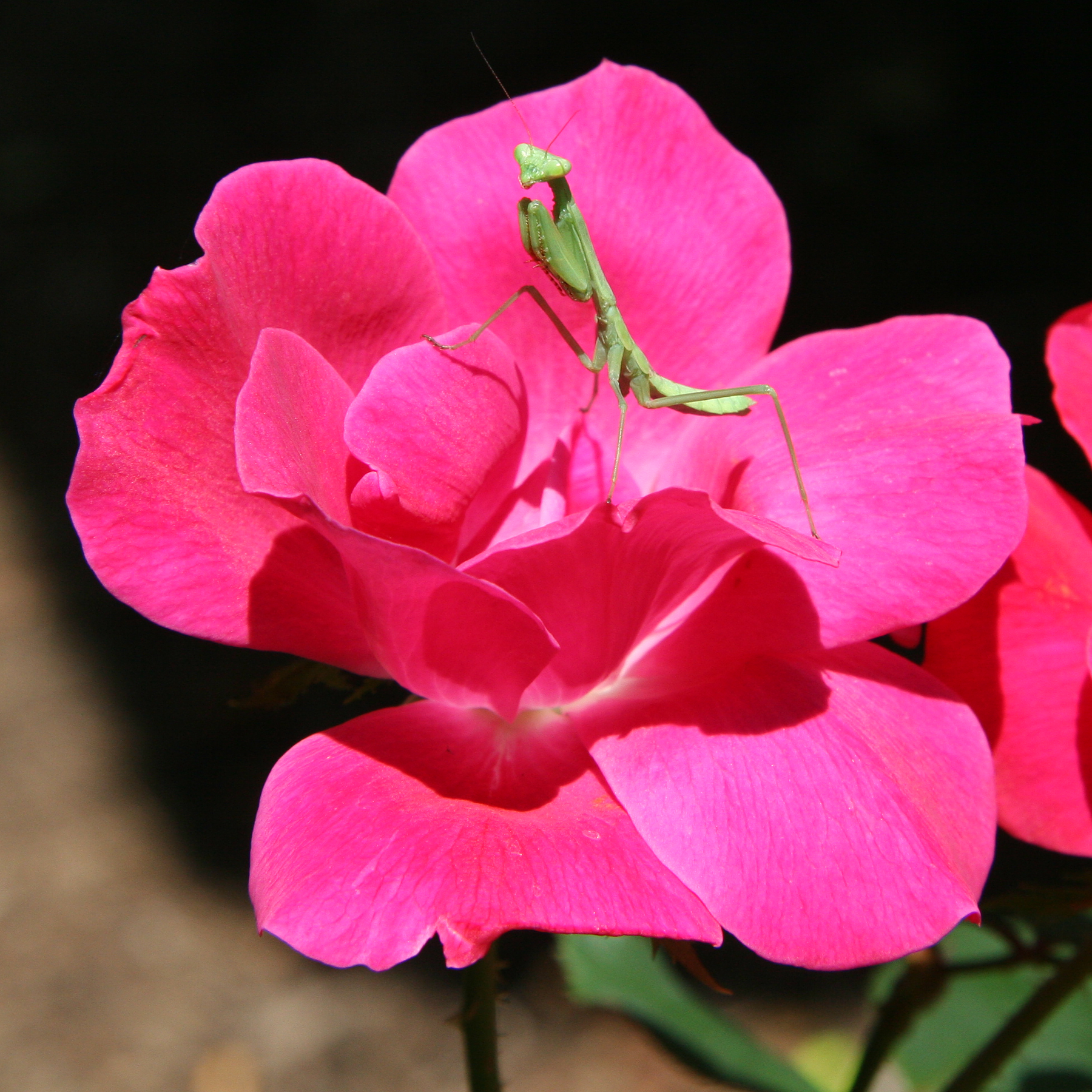 A European mantis (Mantis religiosa) perches on a shrub rose. Photo taken at Lincoln Park in Zionsville, Indiana.